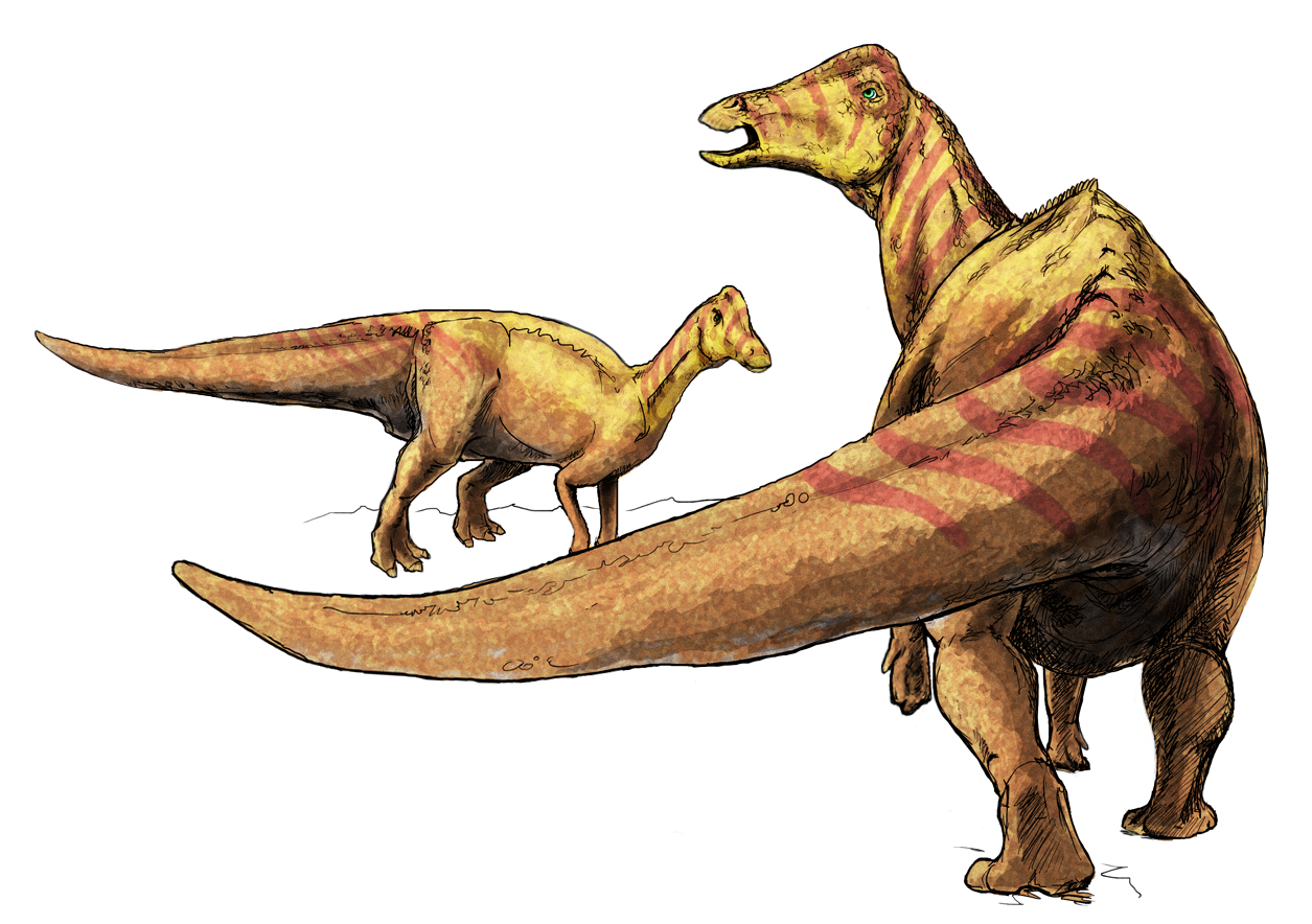 Nipponosaurus is a lambeosaurine hadrosaurid from Asia. The holotype (UHR 6590, University of Hokkaidō Registration) was discovered in November 1934 during the construction of a hospital on Japanese Sakhalin (now Sinegorsk, South Sakhalin, Russia), and additional material belonging to the specimen was recovered in the summer of 1937